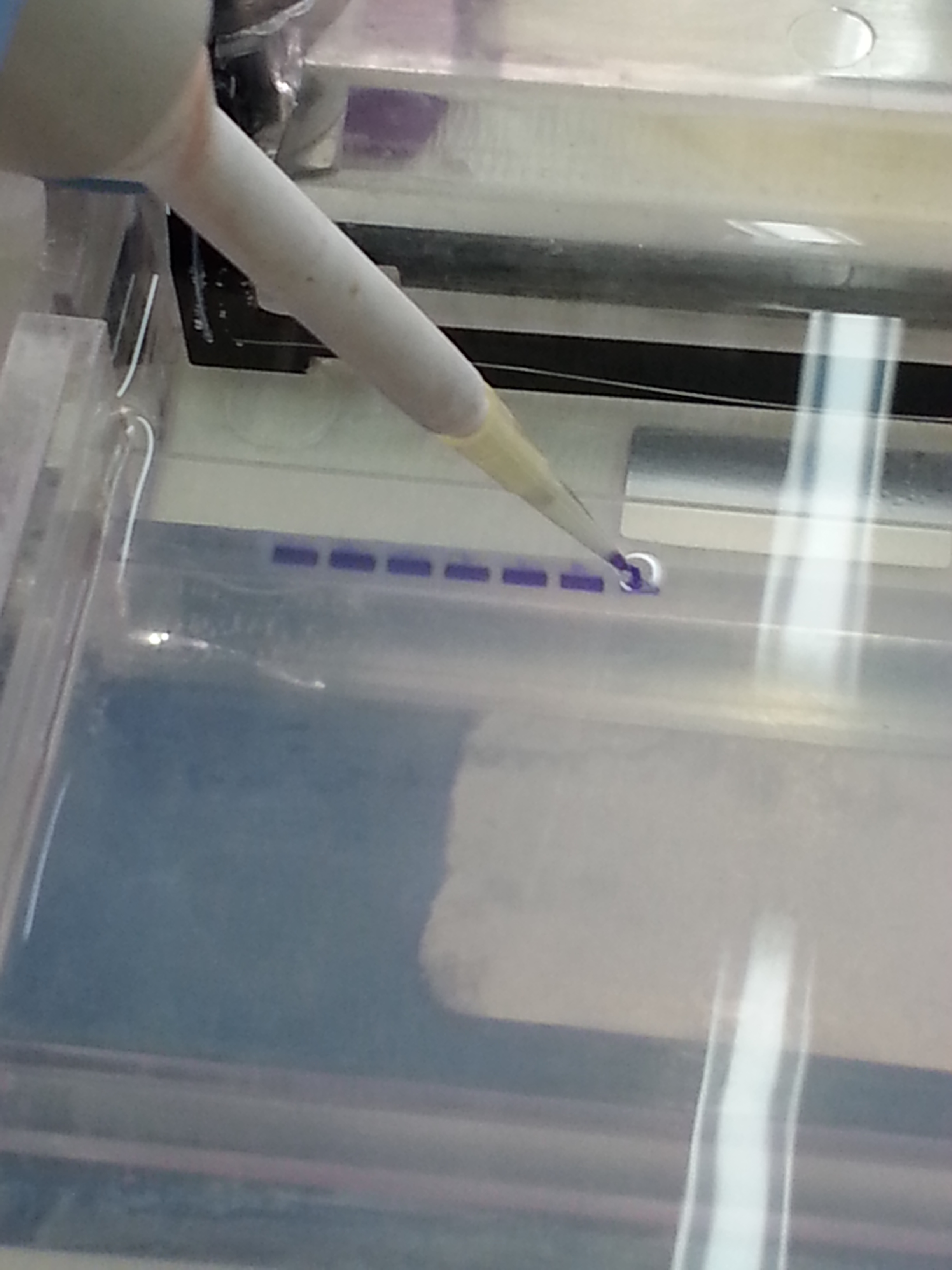 Loading a DNA sample into an agarose gel for electrophoresis